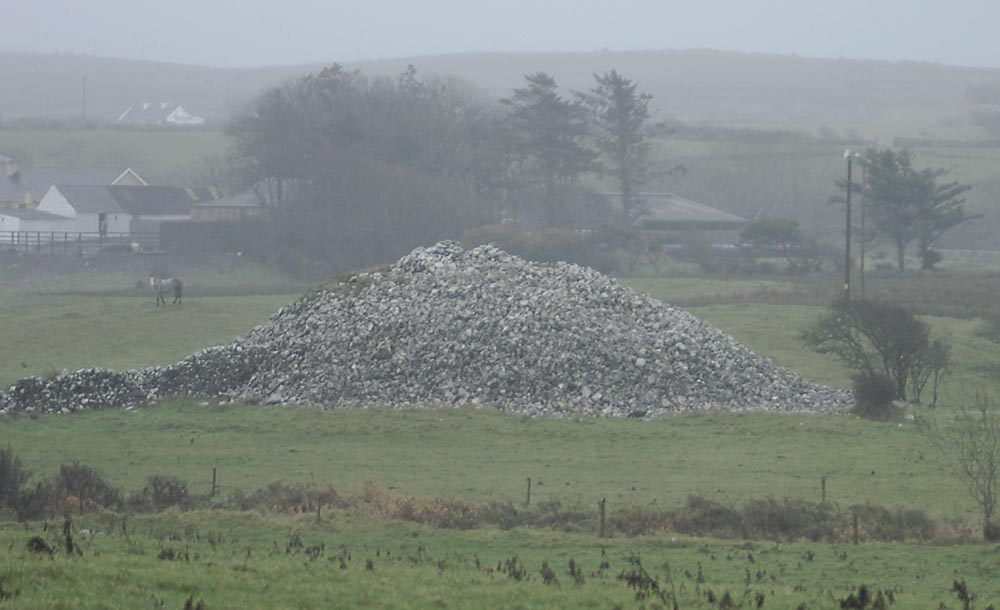 Carn, cairn, Kilshanny, County Clare, Ireland. Danny Burke